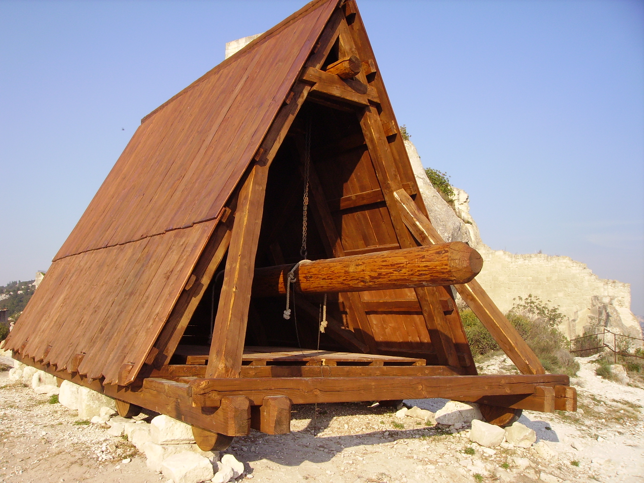 Photographer: User:Ballista